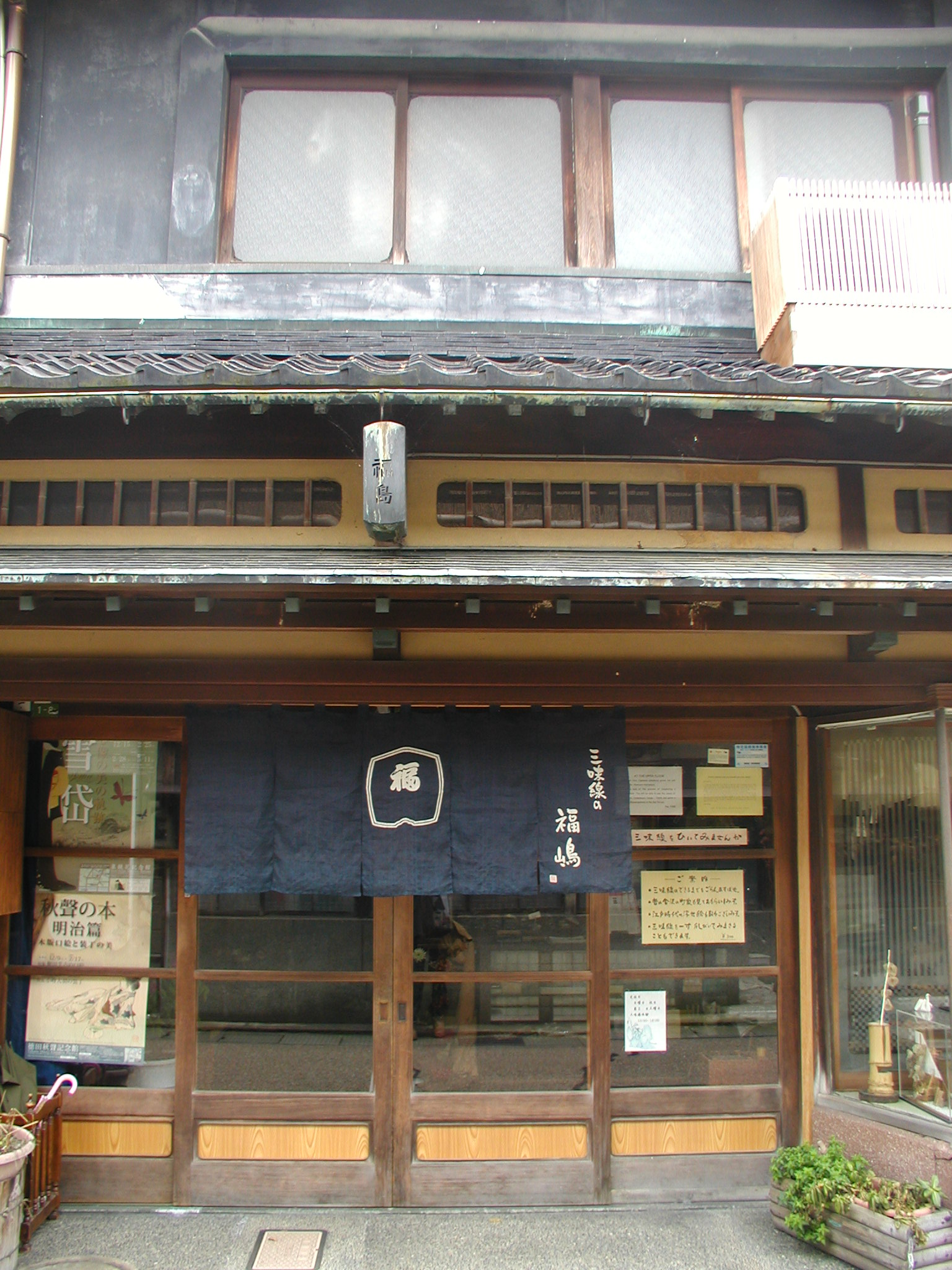 Shamisen no Fukushima (三味線の福嶋), an old shamisen shop in the Higashi Chayagai district of Kanazawa. Fukushima has been providing shamisen to the geisha district for over 150 years.